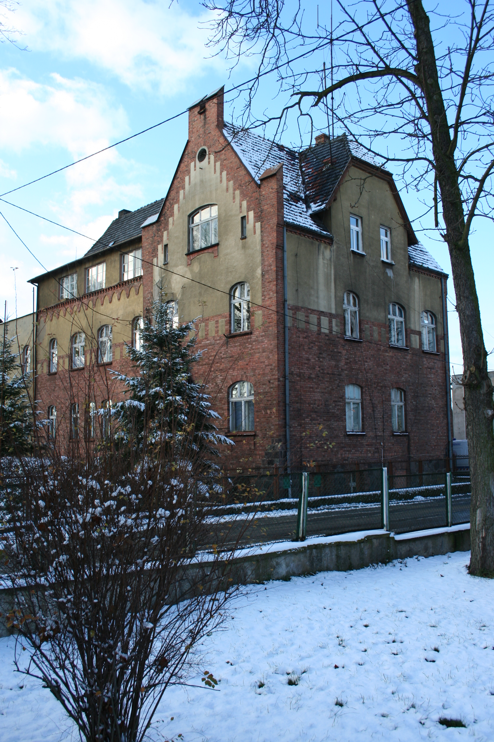 health care provider in Sieraków